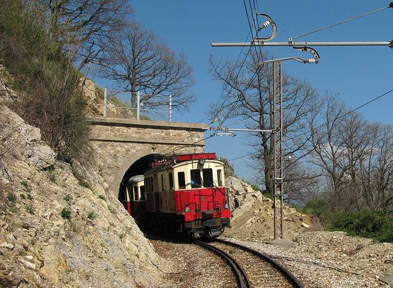 Historic electric CC locomotive 29 (built in 1924 by Carminati & Toselli and TIBB) comes out from a gallery on the Ferrovia Genova - Casella.